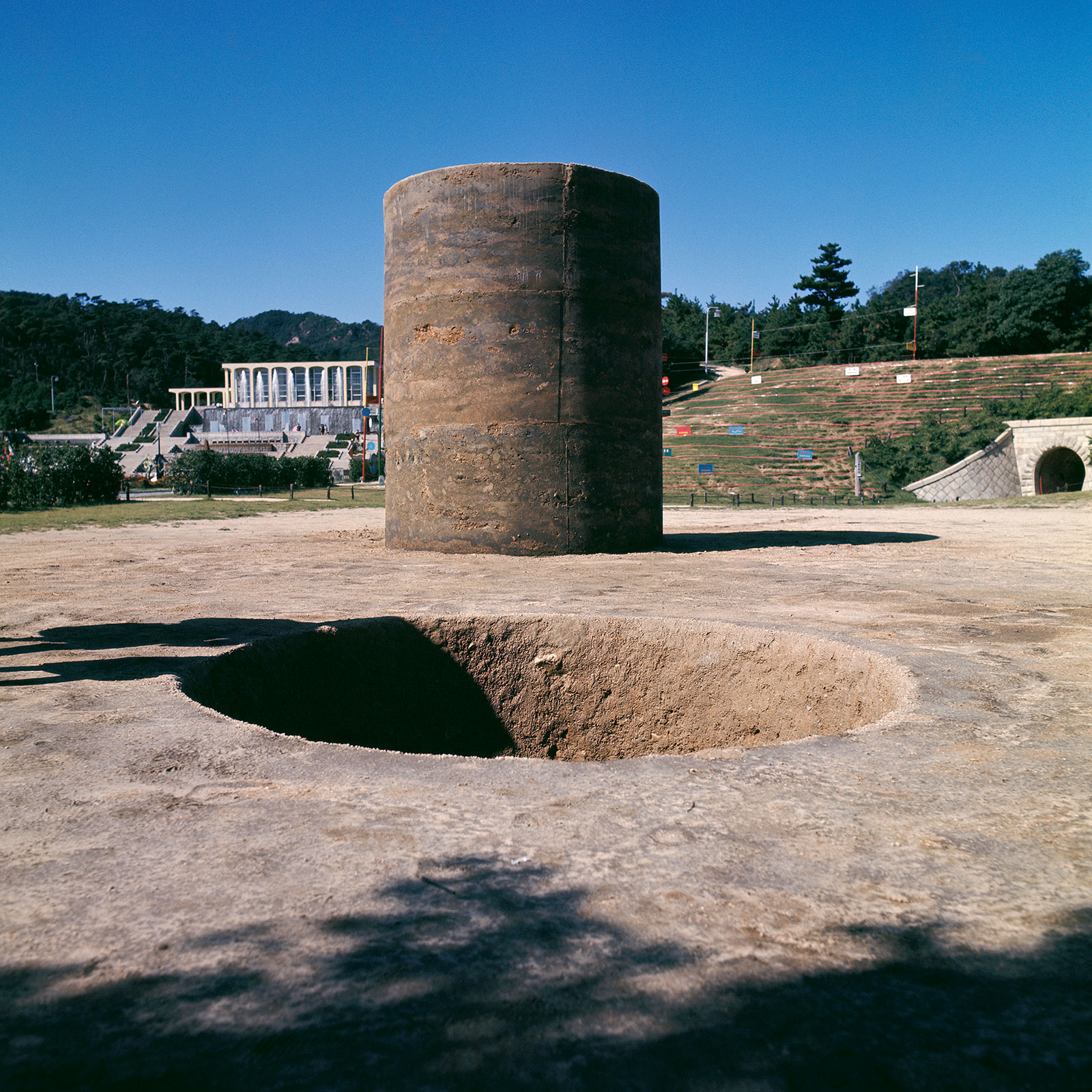 Artist: Nobuo Sekine Title: Phase—Mother Earth Year of production: 1968 Media: Earth, cement Dimensions: Cylinder: 220 x 270 (diameter) cm, Hole: 220 x 270 (diameter) cm Venue/exhibition daters: Installation view, 1st Kobe Suma Rikyū Park Contemporary Sculpture Exhibition, October 1 - Novermber 10, 1968. Photographer: Osamu Murai